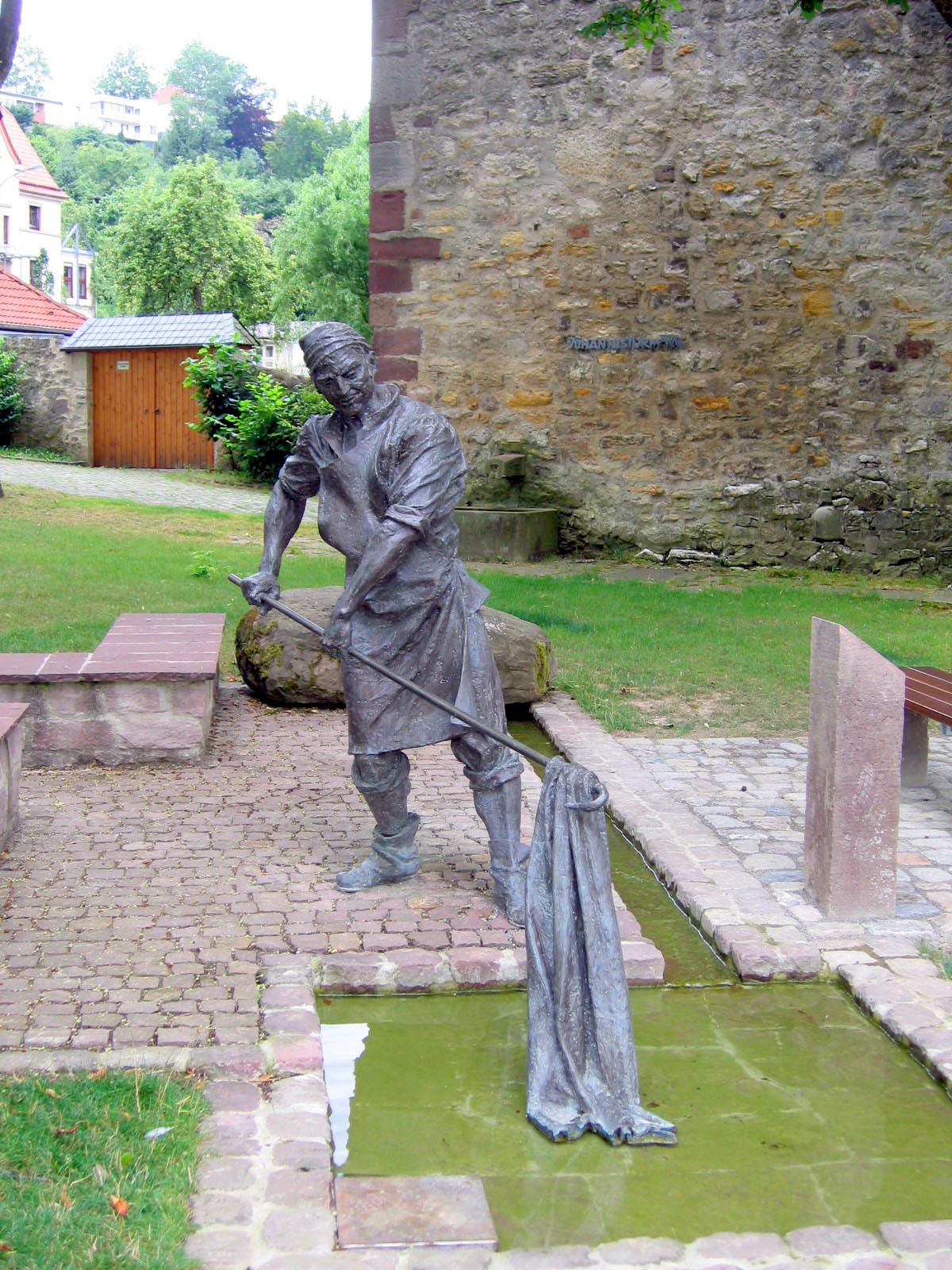 The tanner statue (tanner of Warburg) at the Johannisturm in Warburg, built in 2005 by the "Heimat- und Verkehrverein Warburg".